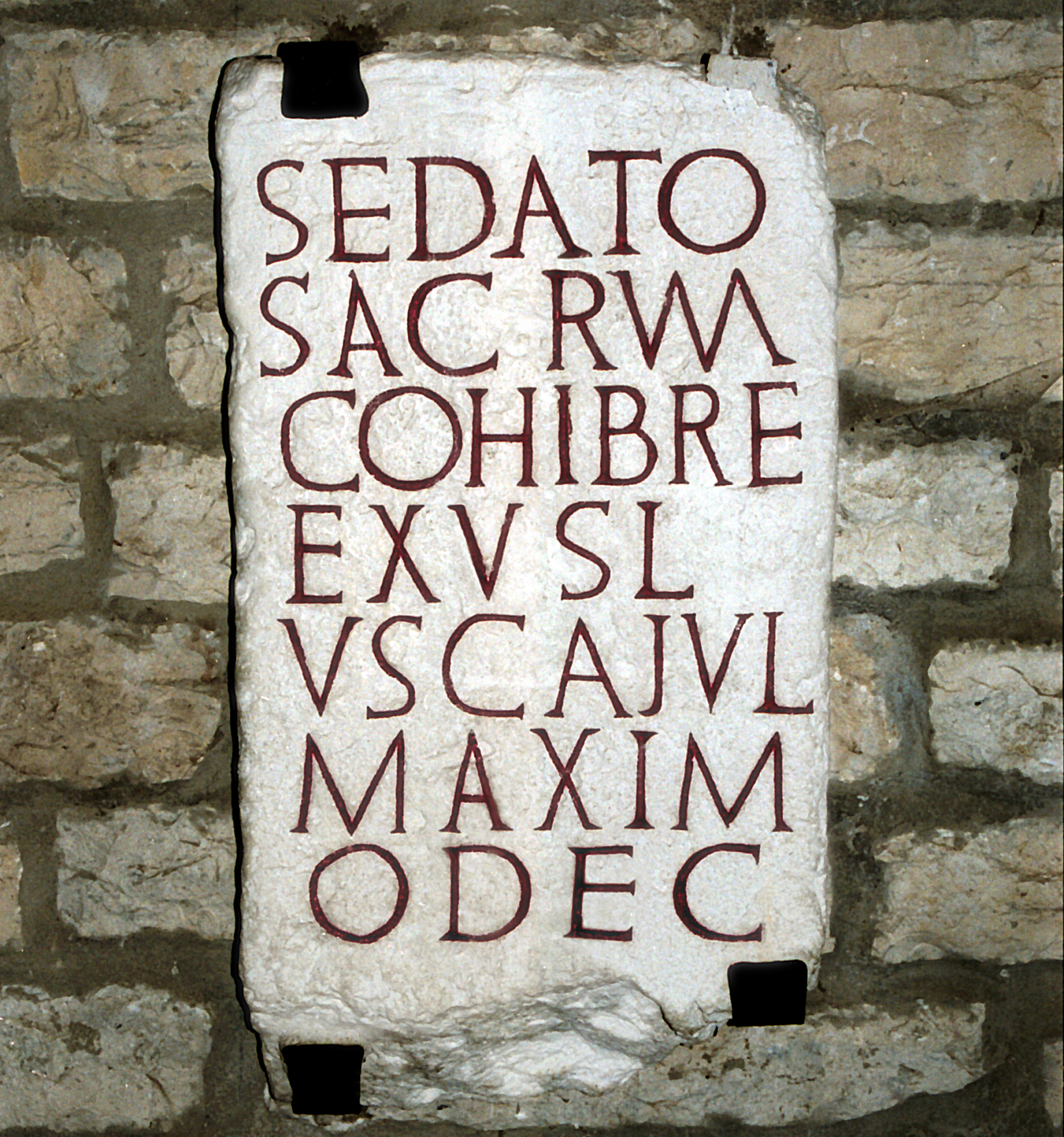 CIL 03, 05918. From the destroyed chapel of St. Nicholas, near the Roman fort Pfünz, Altmühltal, Bavaria/Germany, This is a consecration altar for the God Sedatus from Illyria. The photo shows a cast in the castle of Pfünz. The original of this inscription is now in the Roman Museum Augsburg.